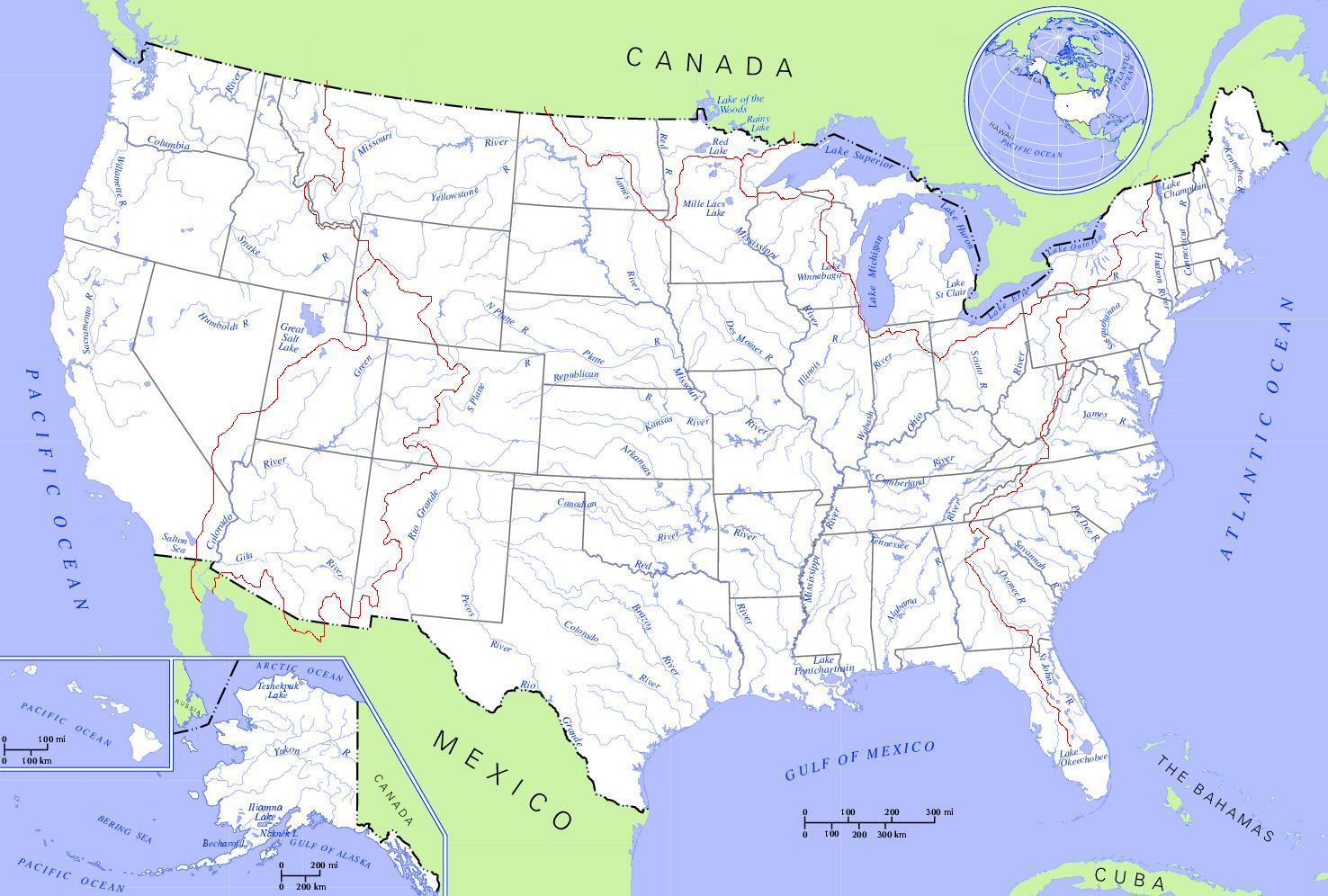 Derived adaptation of File:US map - rivers and lakes2.jpg.